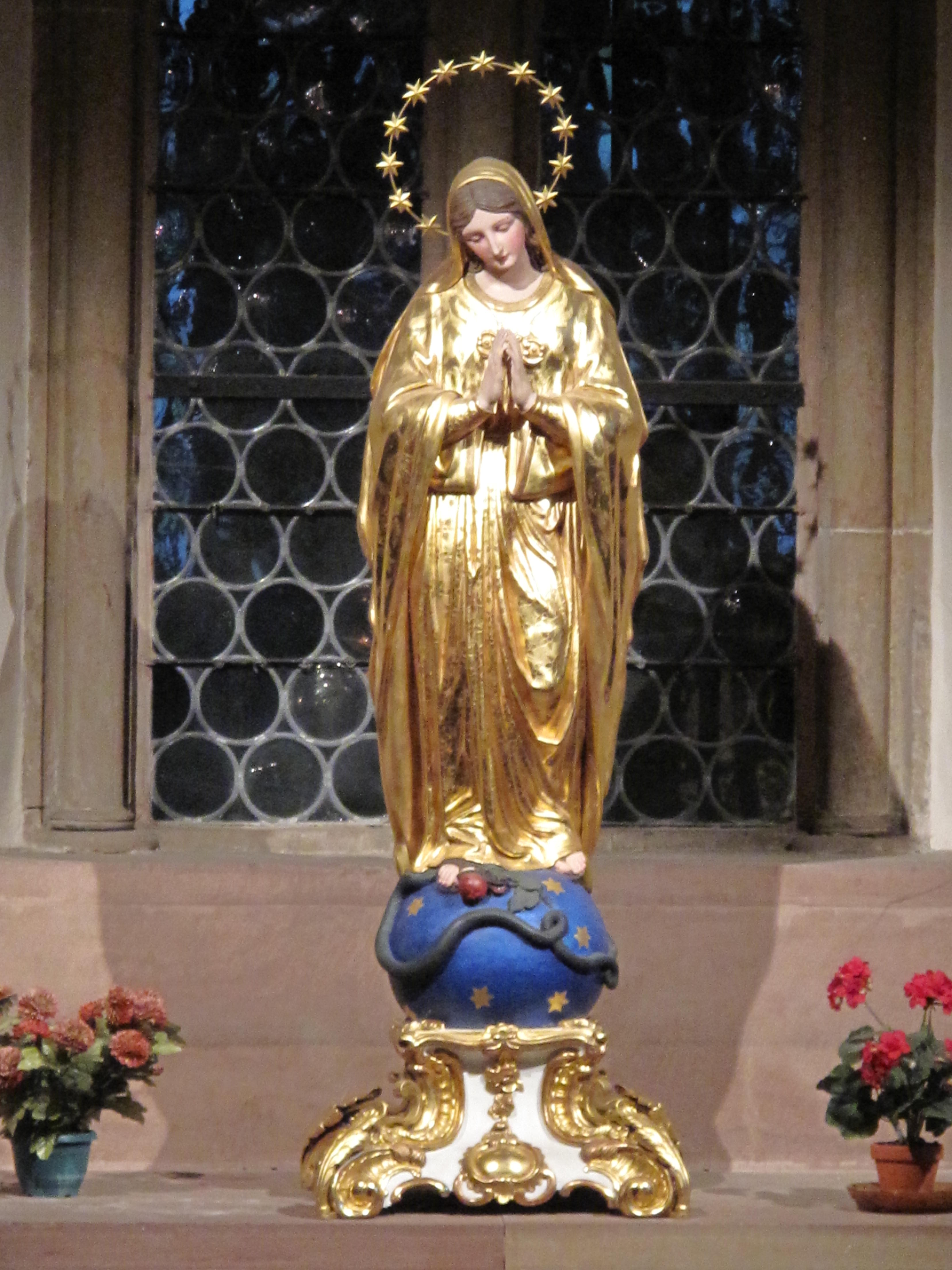 Statue of Virgin Mary in the transept of the cathedral of Strasbourg, France. Created 1858/9, restored 1899, 1934, 1954 and 1998.